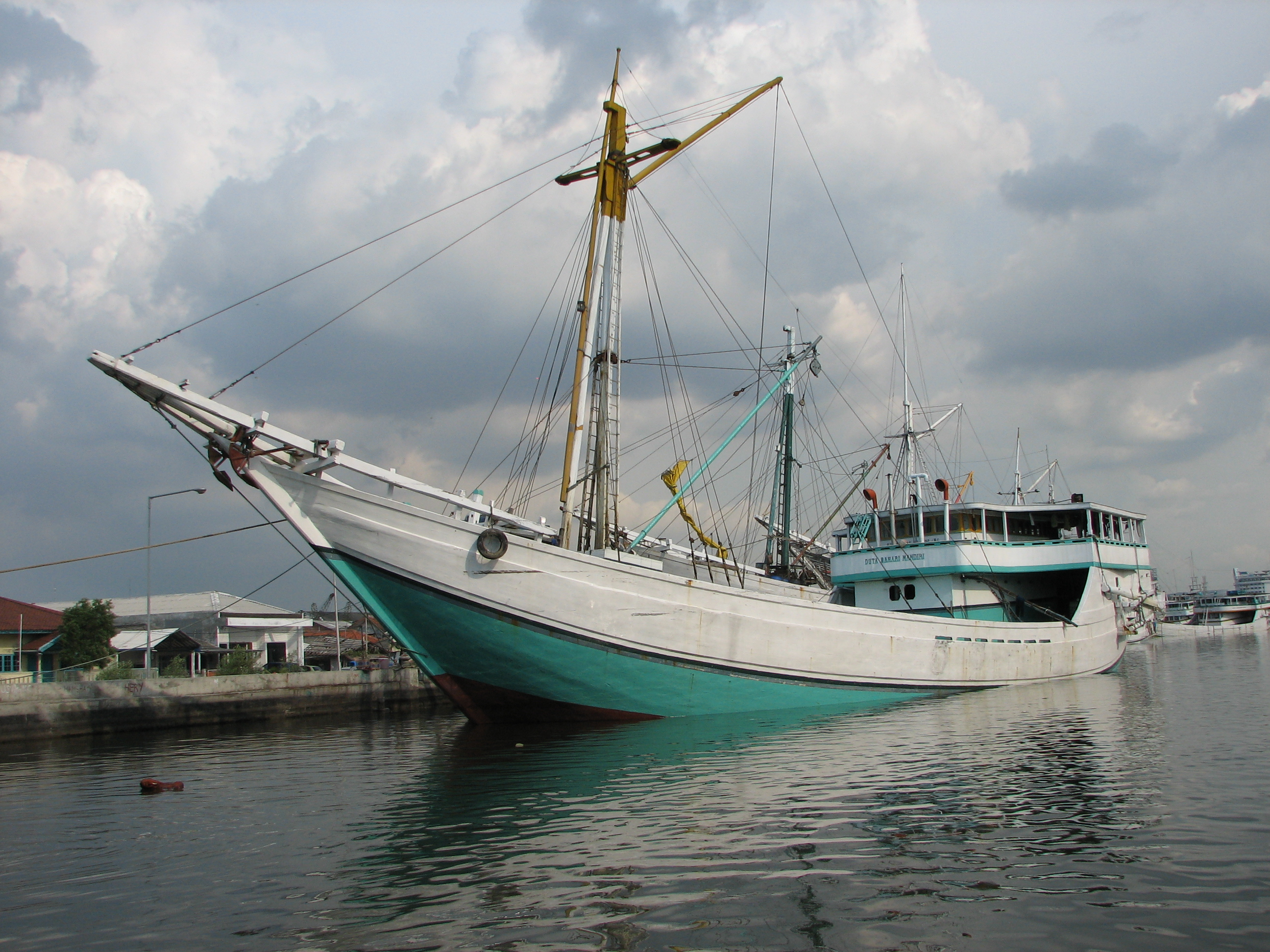 ship in Indonesia